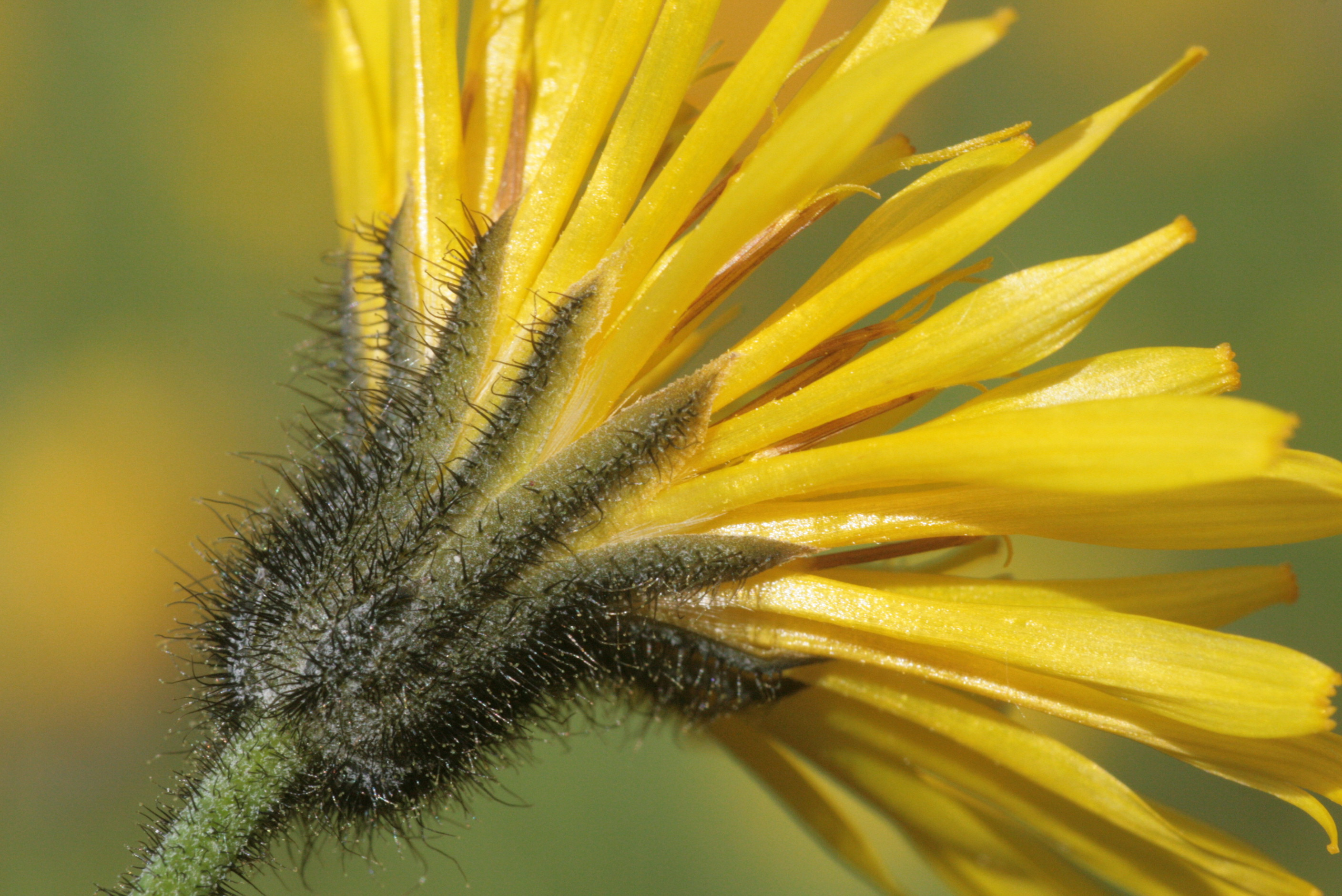 Willemetia stipitata